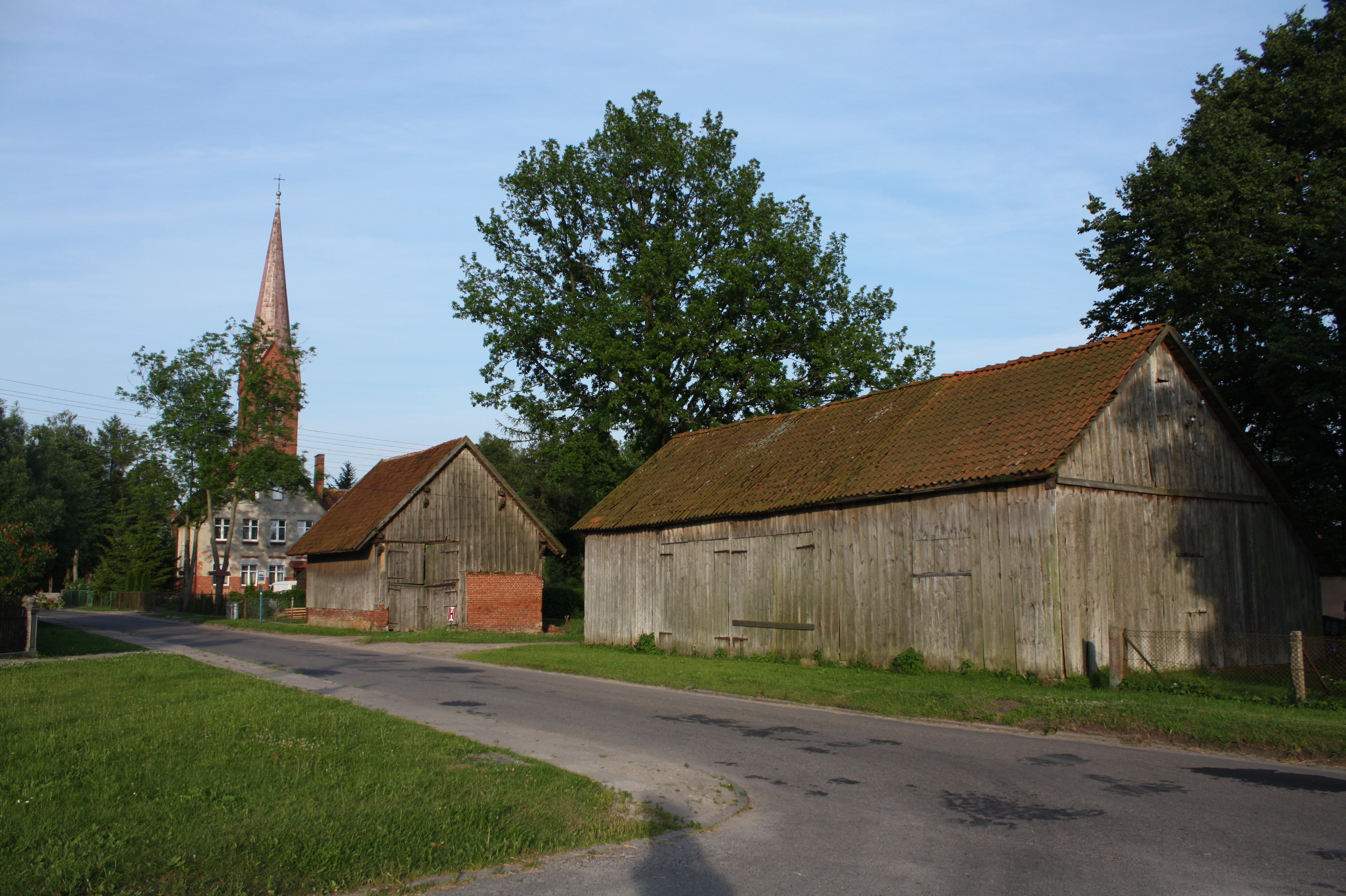 Pogrodzie